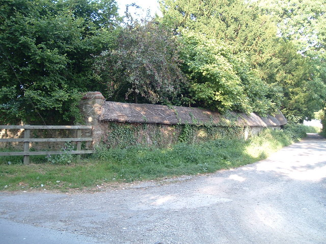 Cob wall in Church Lane, Harwell, Oxfordshire (formerly Berkshire): probably 18th-century. Cob walls are mixed natural materials and topped with protective thatch. There are other cob walls in Harwell and nearby villages including Blewbury and East Hendred.